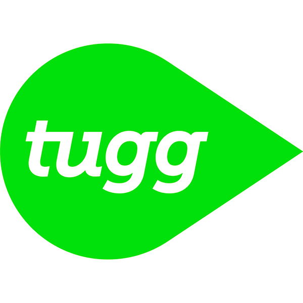 Logo for Tugg Inc.